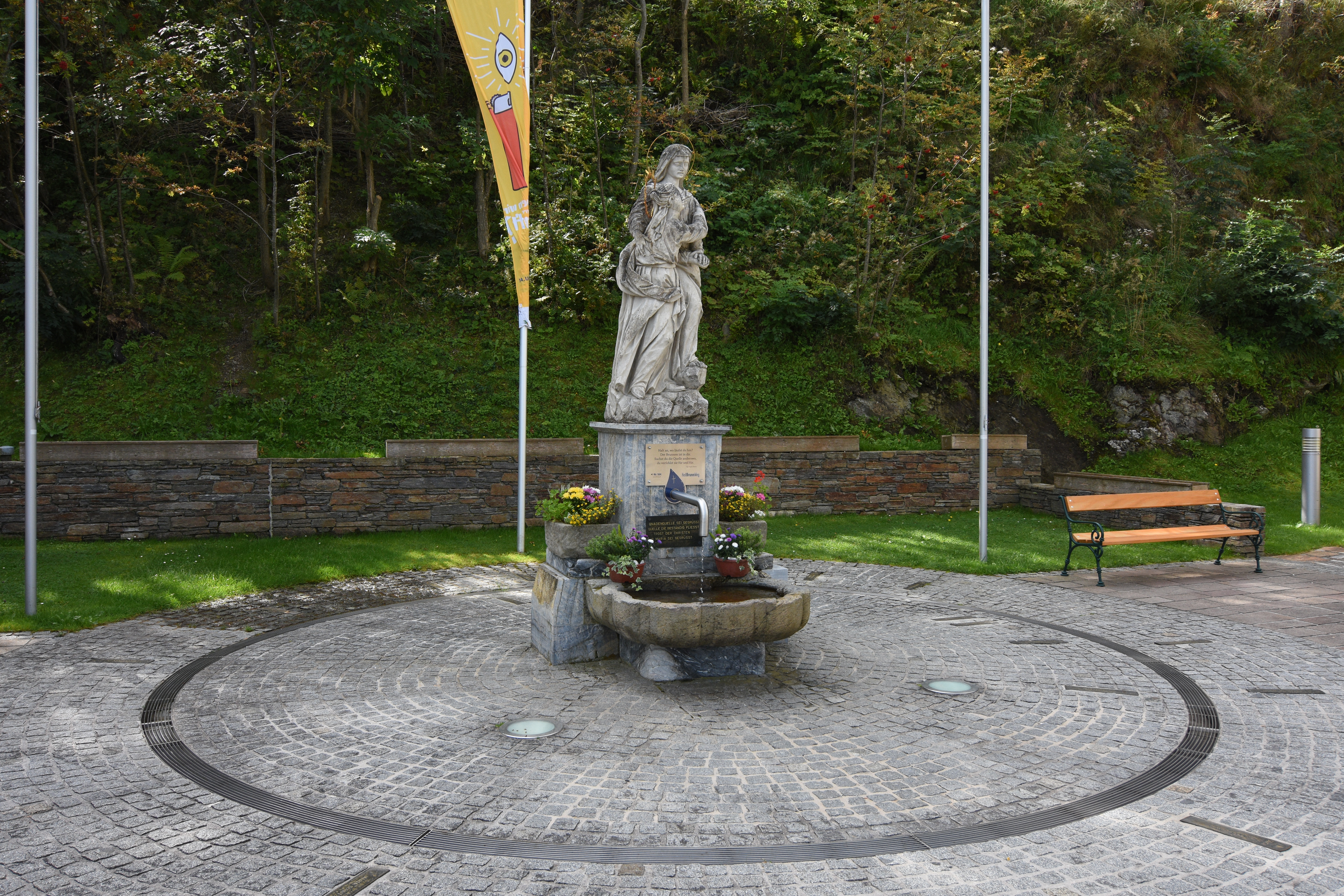 Heilbrunn (Gemeinde Anger)